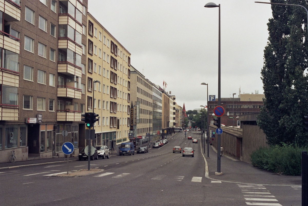 Rautatienkatu, a street in Kyttälä, central Tampere, Finland.